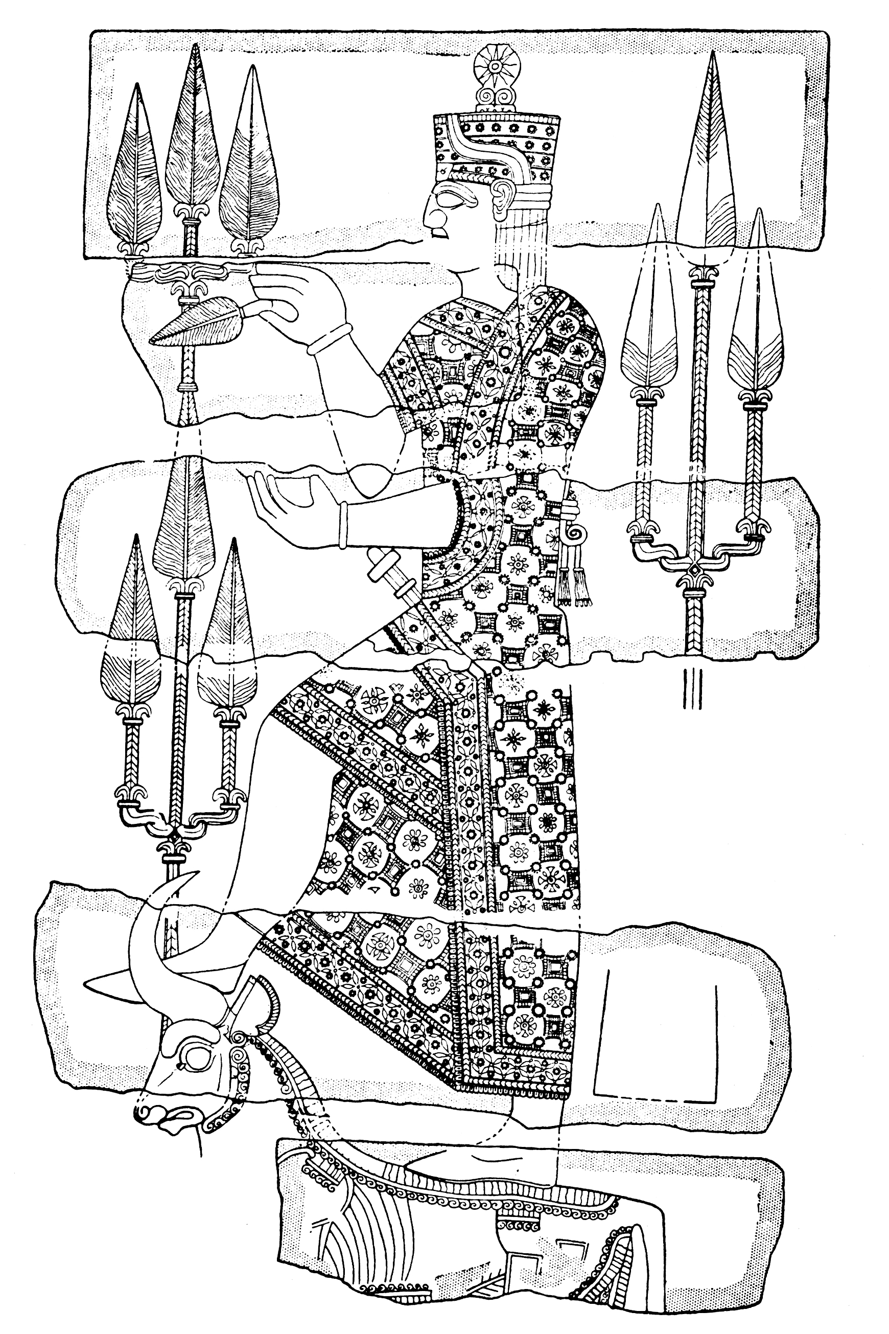 Reproduction of stone image of urartian god Teisheba on the bull, Van museum